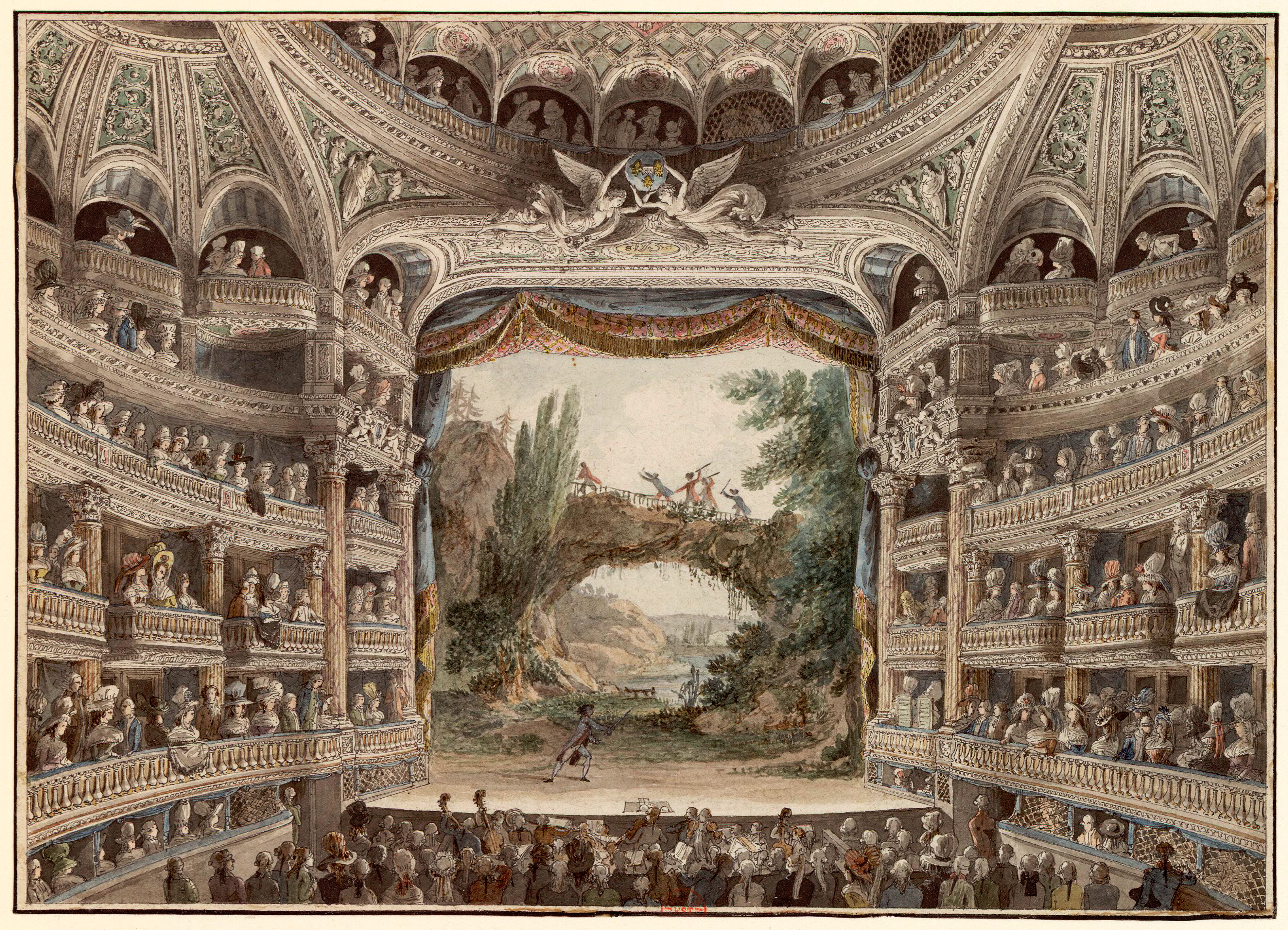 Interior of the Comédie-Française on the rue de Richelieu as originally designed by Victor Louis in 1790.